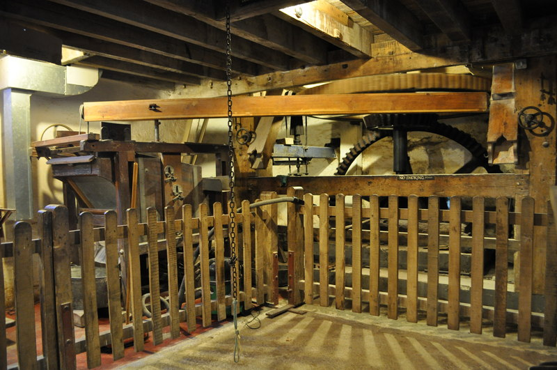 Dunster Mill